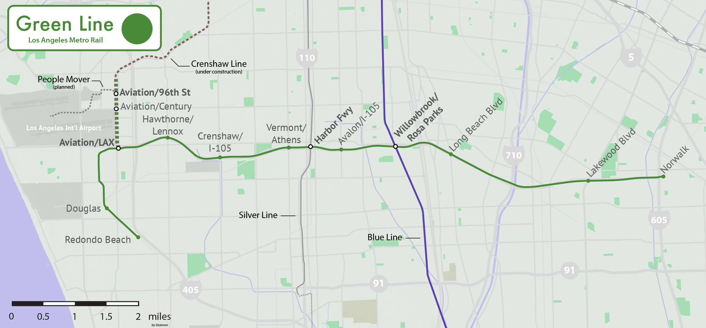 Map of the Metro Green Line in Los Angeles, CA including the future airport extension. Dashed lines indicate features under construction. Checkered gray lines indicate Metrolink routes. Silver Line busway street-running sections are indicated by dotted lines. Made using public domain USGS and Natural Earth data.